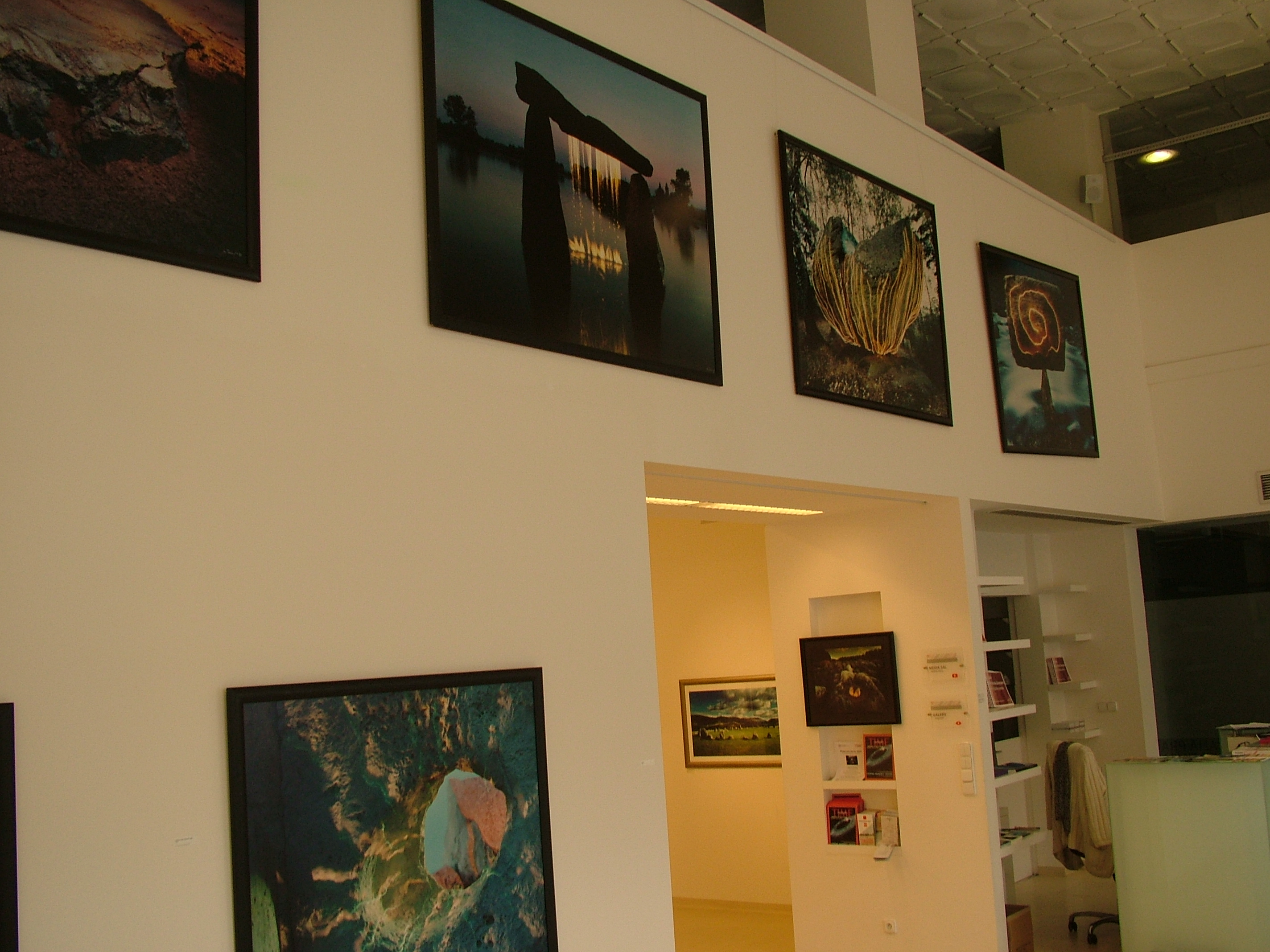 Jan_Pohribny_Kamenna_posedlost